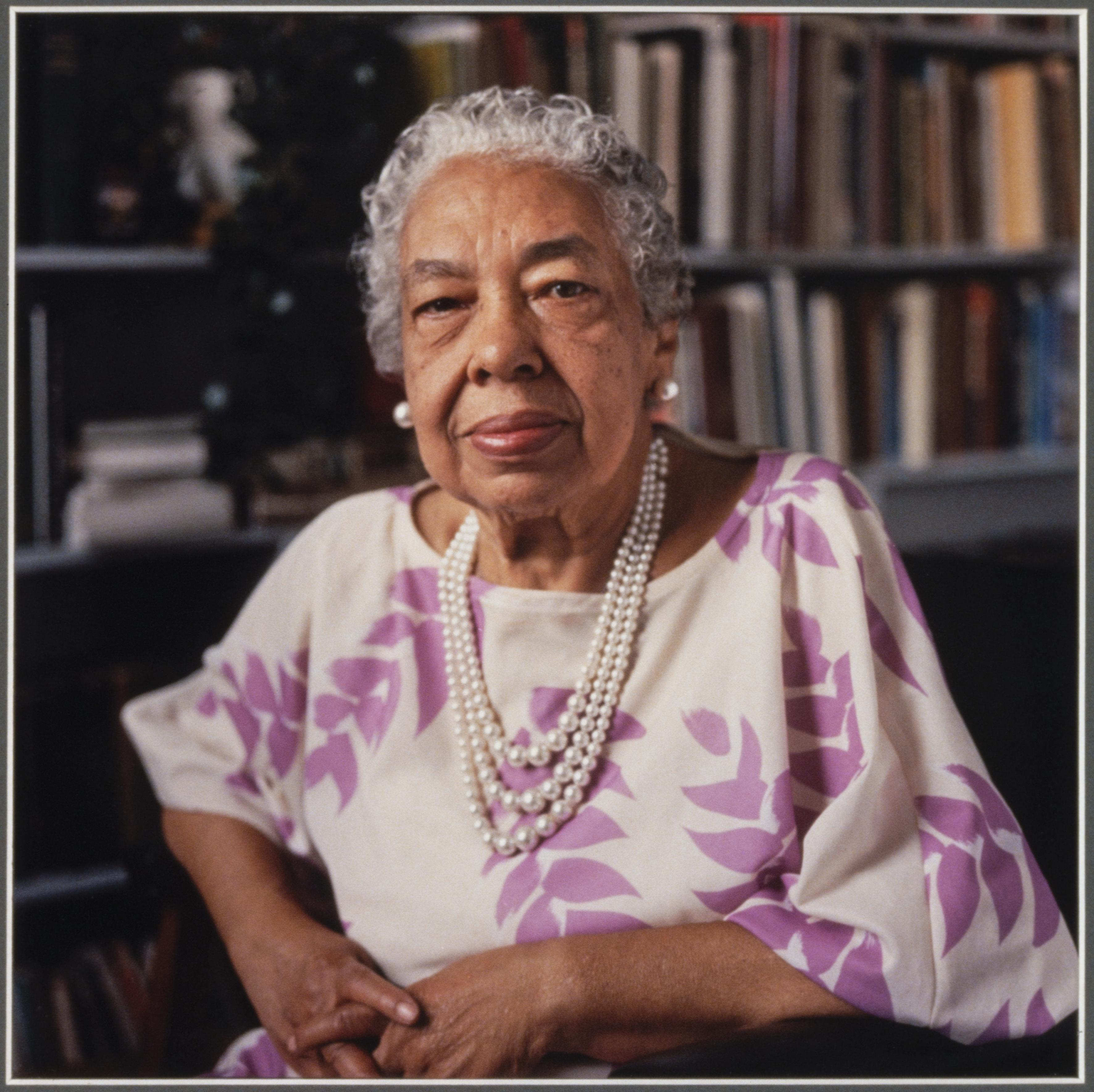 Biography: Alice Dunnigan was a schoolteacher, political activist, and journalist. The daughter of sharecroppers, she showed an early desire for an education. Despite her parents' protest, she went to grade school and eventually to Kentucky State College. She received a teaching certificate and taught in the rural schools of Kentucky. In 1930 she returned to school at West Kentucky Industrial College and earned a certificate in home economics. In her small town, she worked to improve city services, such as mail delivery and installation of gas and water lines, for the Black area. World War II took her to Washington, D.C., where she worked as a clerk-typist, and later as an economist-writer. This led to her career as a journalist and to her becoming chief of the Washington Bureau of the Associated Negro Press. She was the first Black woman to be admitted to the White House and Congressional Press Galleries and was the first Black correspondent to travel with a President of the United States when she accompanied Harry Truman during his 1948 campaign. Following her retirement, she did research on the history of Black Kentuckians. Description: The Black Women Oral History Project interviewed 72 African American women between 1976 and 1981. With support from the Schlesinger Library, the project recorded a cross section of women who had made significant contributions to American society during the first half of the 20th century. Photograph taken by Judith Sedwick Repository: Schlesinger Library on the History of Women in America. Collection: Black Women Oral History Project Research Guide: Questions?